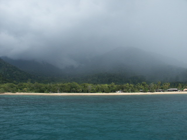 beach of tioman